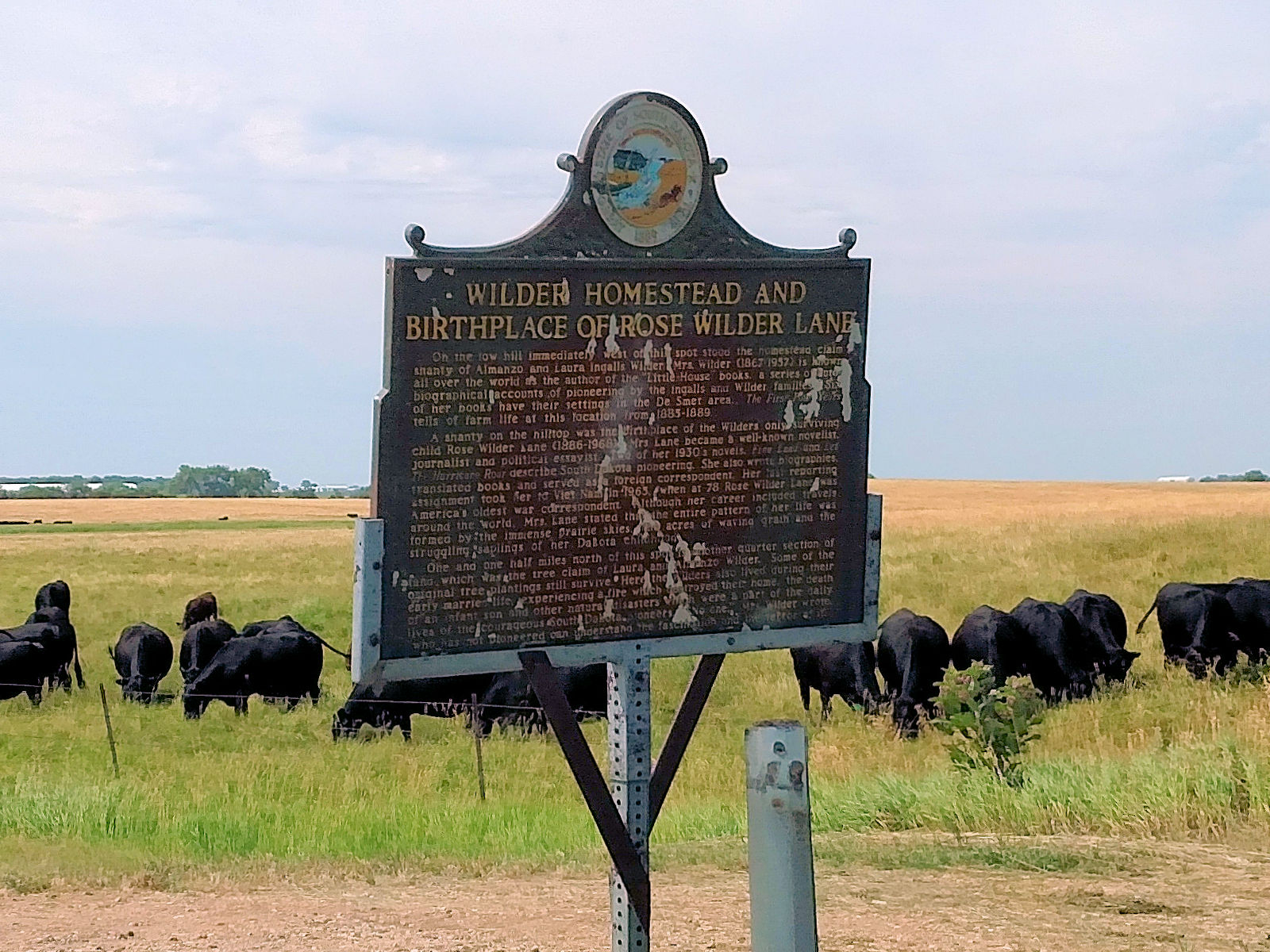 Roadside marker on SD Highway 25, just north of DeSmet, SD